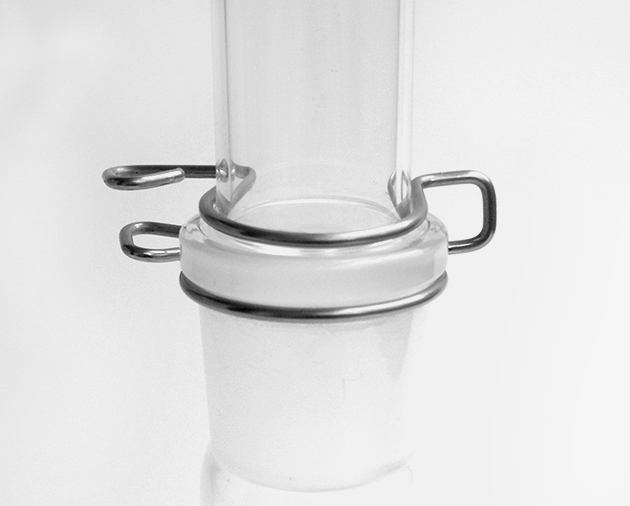 Clipox® NS clips for conical ground glass joints